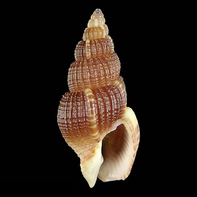 Seashell Antillophos tsokobuntodis